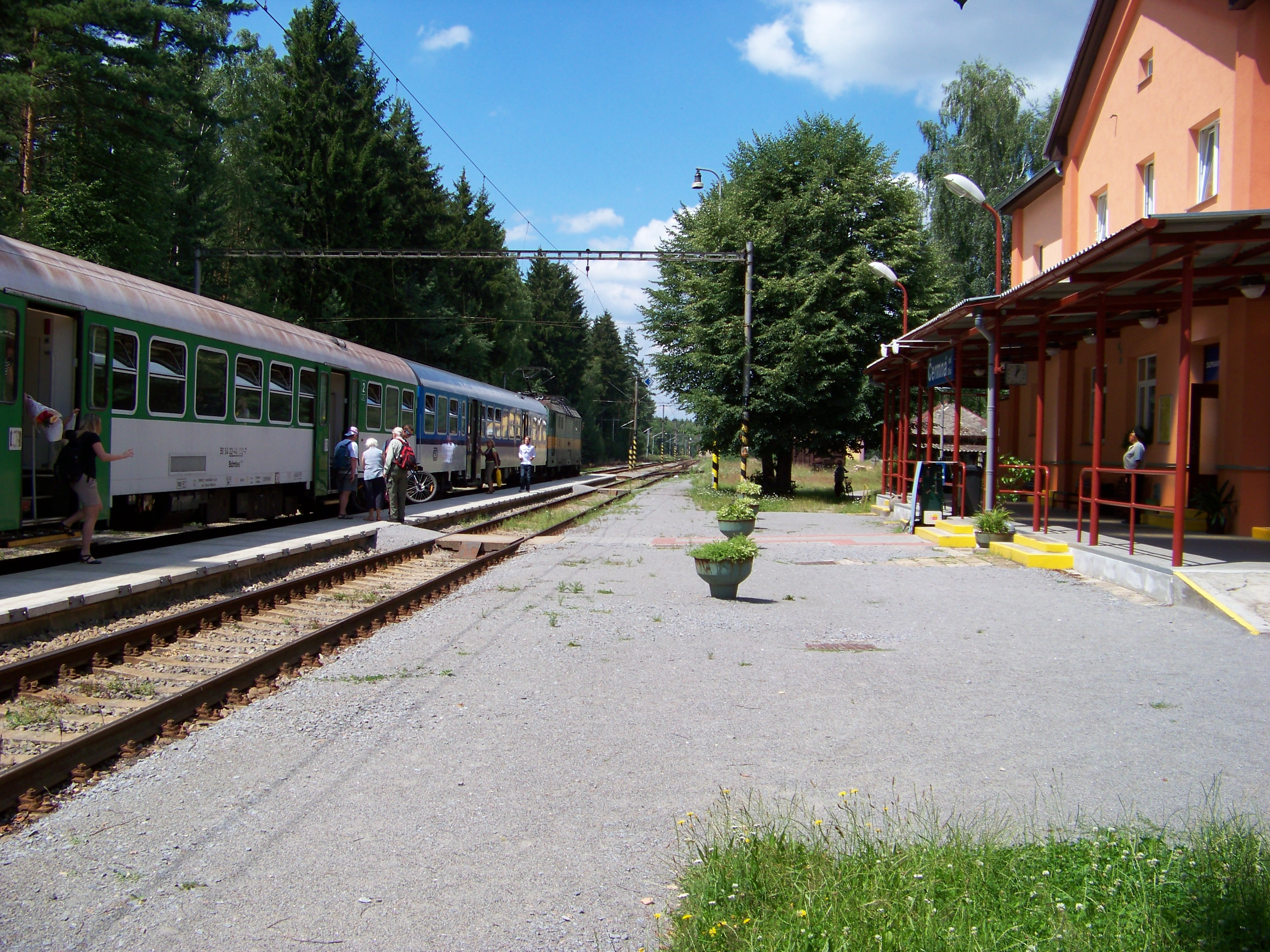 Čermná nad Orlicí-Malá Čermná, Rychnov nad Kněžnou District, Hradec Králové Region, the Czech Republic. A passenger train at the train station Čermná nad Orlící.